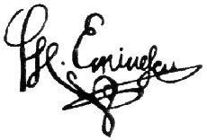 Signature of Mihai Eminescu (1850 - 1889).